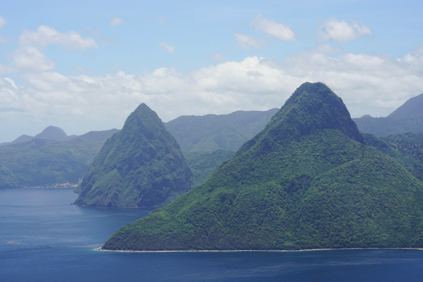 An aerial shot taken of the pitons while descending to Hewanorra International Airport